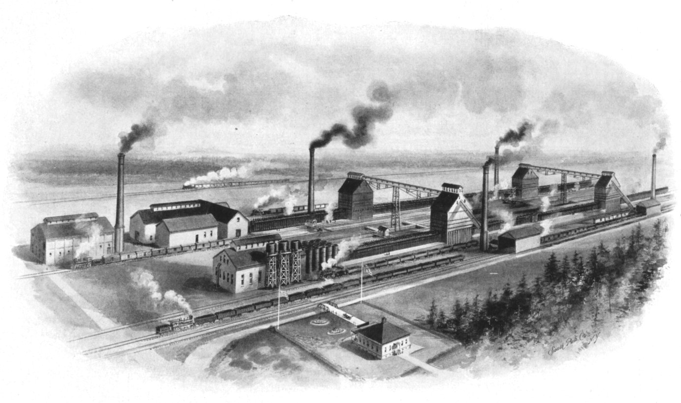 Artist rendering of the Sydney Nova Scotia Coke Ovens.